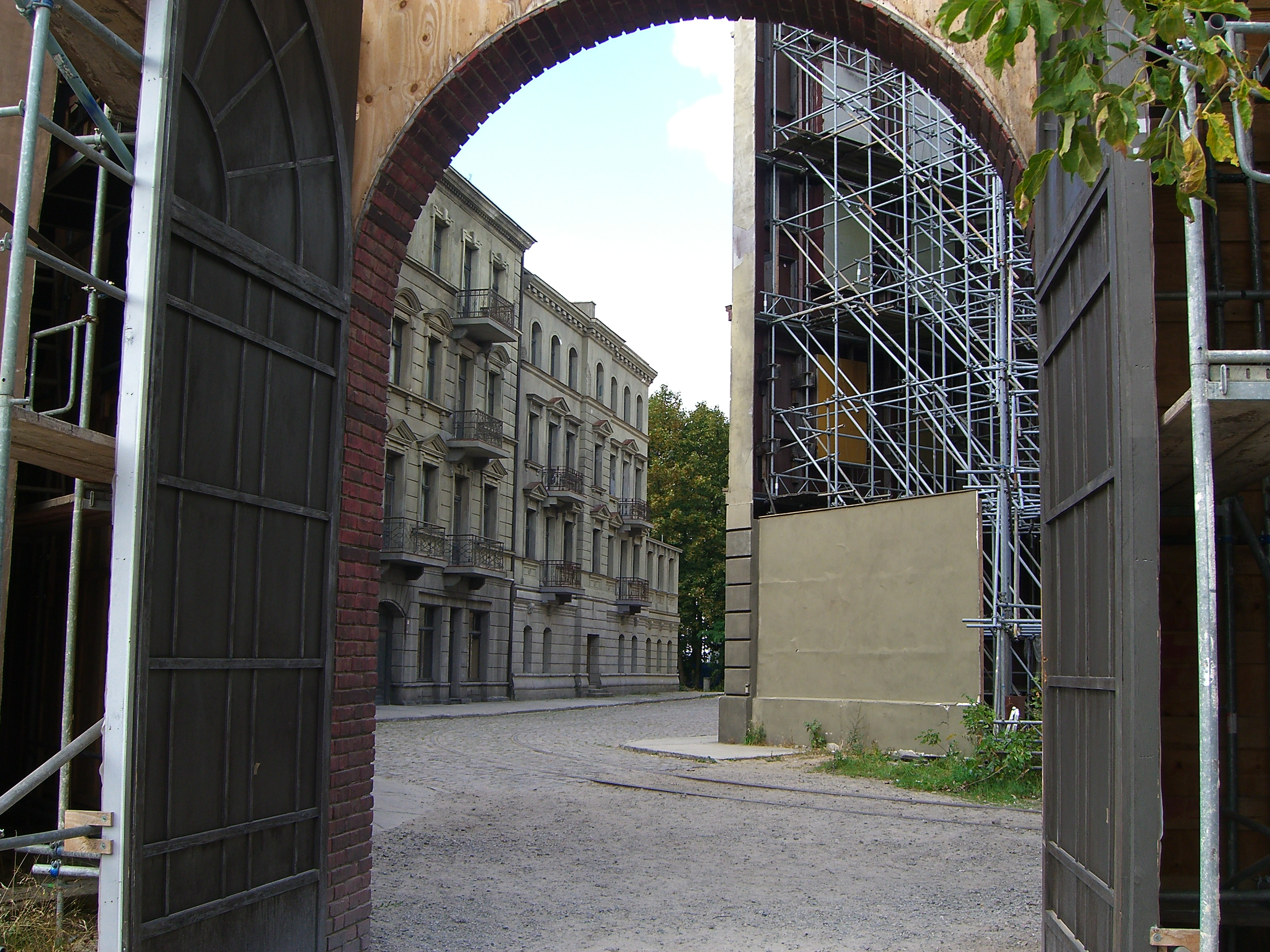 Film set "Street in Berlin" in "Filmpark Babelsberg", Potsdam-Babelsberg.